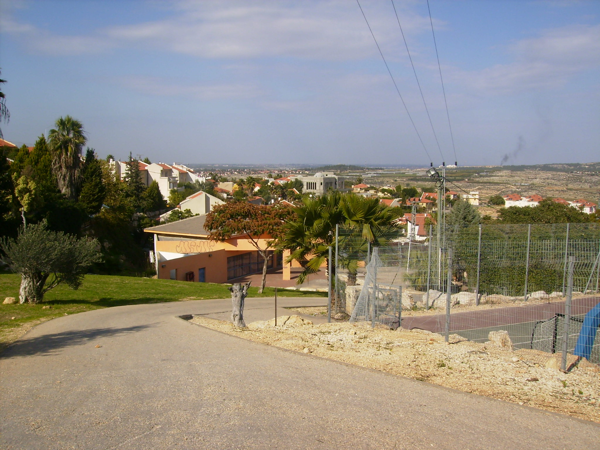 The centre of Tsofim- an Isaeli settlement on the east of the West Bank. The unfinished synagoge can be seen in the center. In the background, Kibbutz Eyal and the Mediterranean Sea can be seen